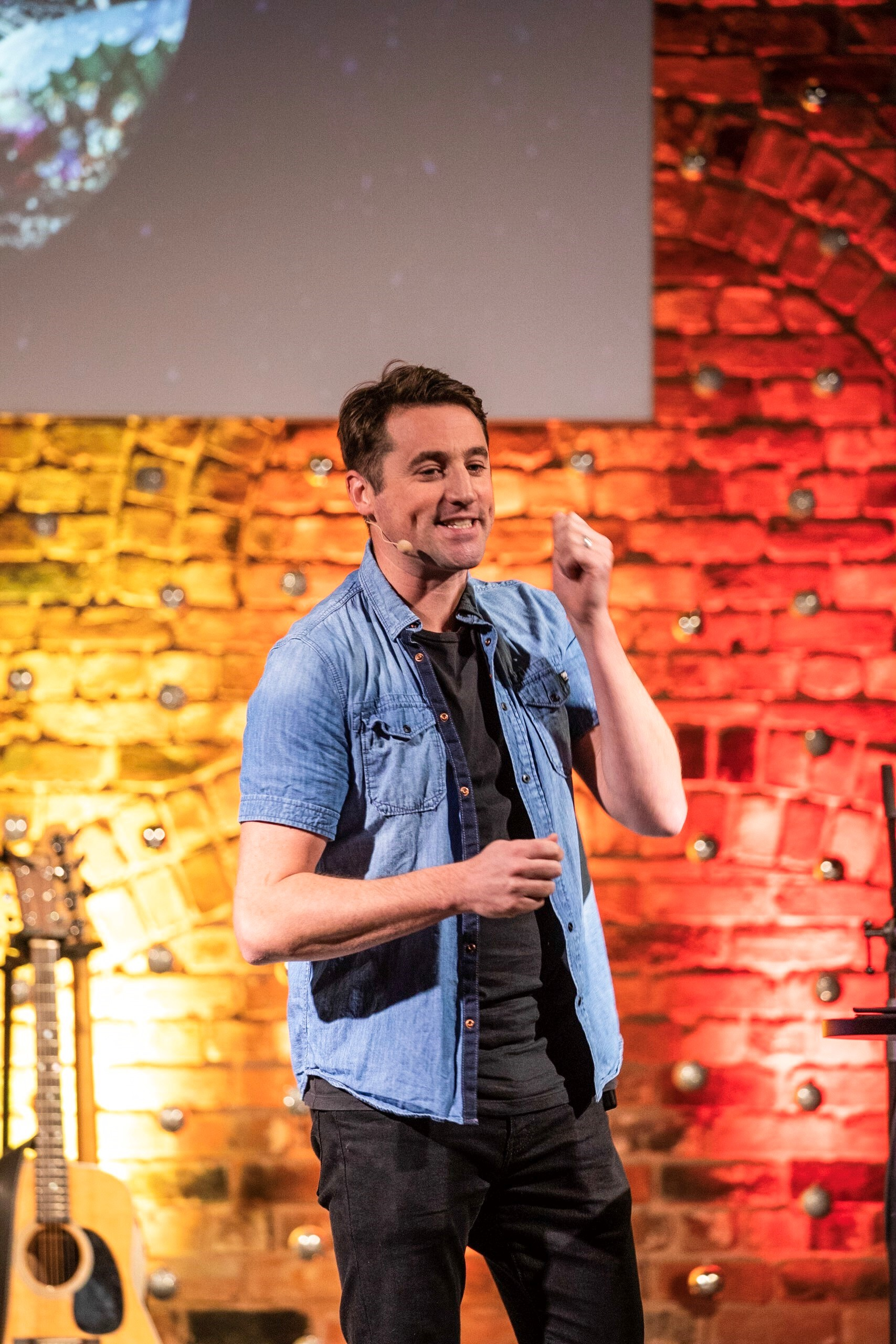 Tim Hughes preaching at St Lukes, Gas Street Church, Birmingham.